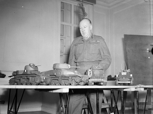 Lieutenant-General E.W. Sansom, General Officer Commanding 2nd Canadian Corps, with models of various tanks, England